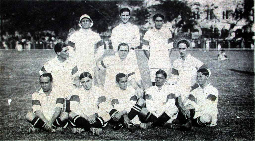 Brazil national football team, before playing its first match ever against English Exeter F.C. in Rio de Janeiro, 1914. Standing: Píndaro, Marcos de Mendonça and Nery; Kneeling: Sylvio Lagreca, Rubens Salles and Rolando De Lamare; Sitting: Oswaldo Gomes, Abelardo De Lamare, Arthur Friendereich, Osman and Formiga.